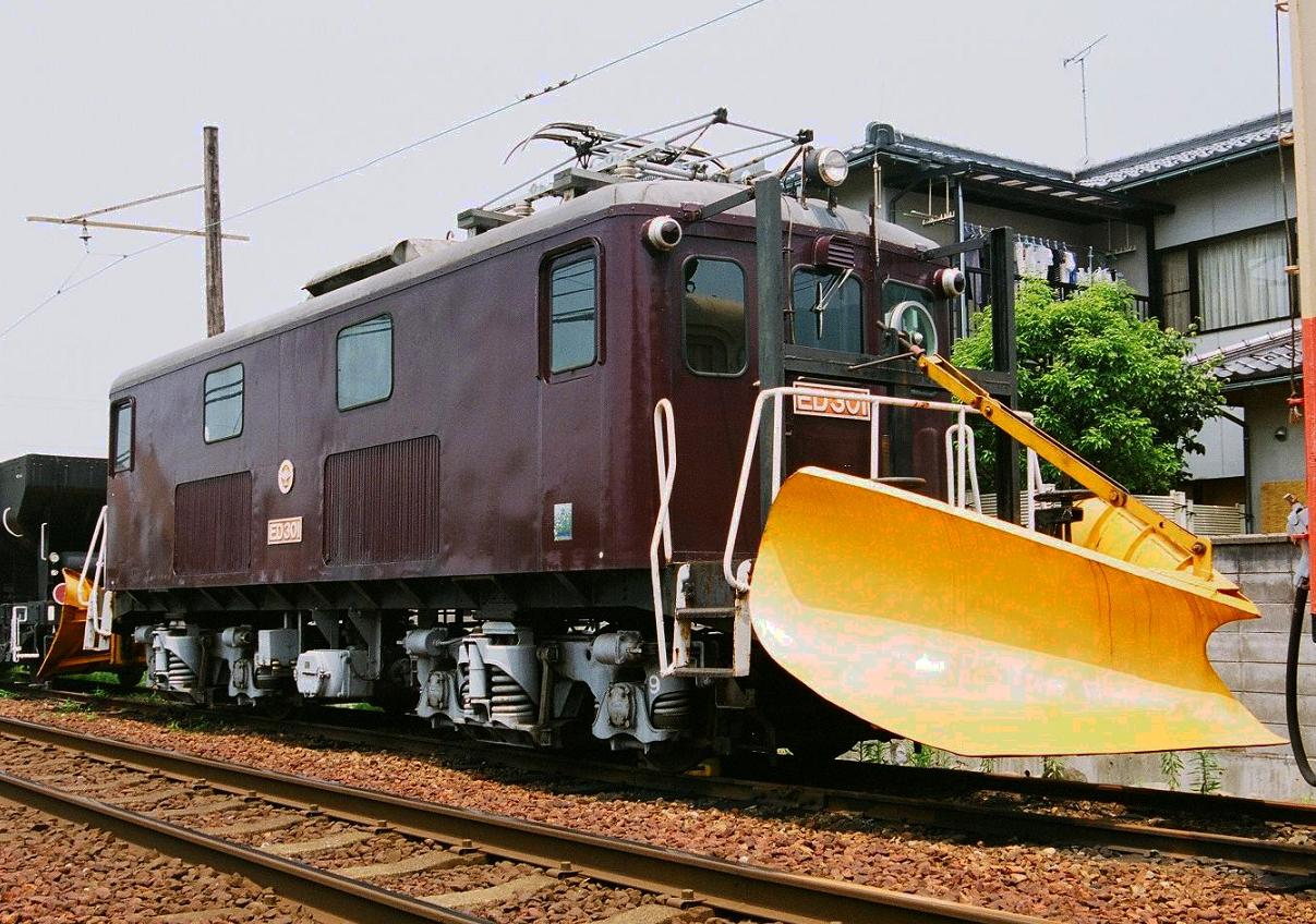 Hokuriku Railway Type ED301 (built in 1954) Electric locomotive Ishikawalain(Japan).